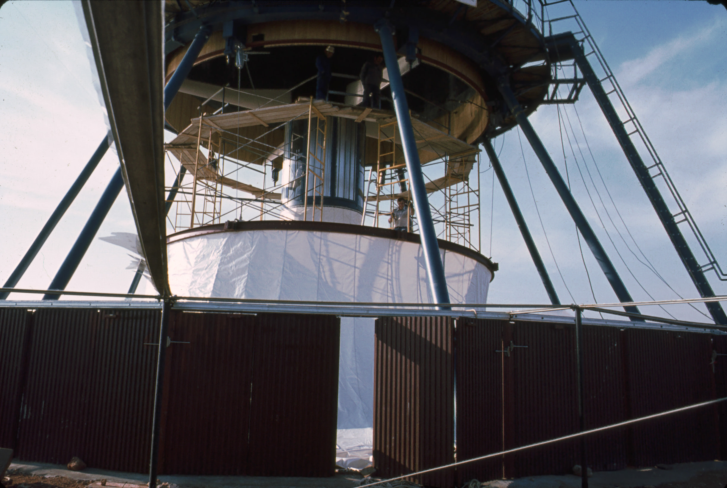 Solar Chimney prototype at Manzanares, Spain. Tower air inlet and turbine under construction